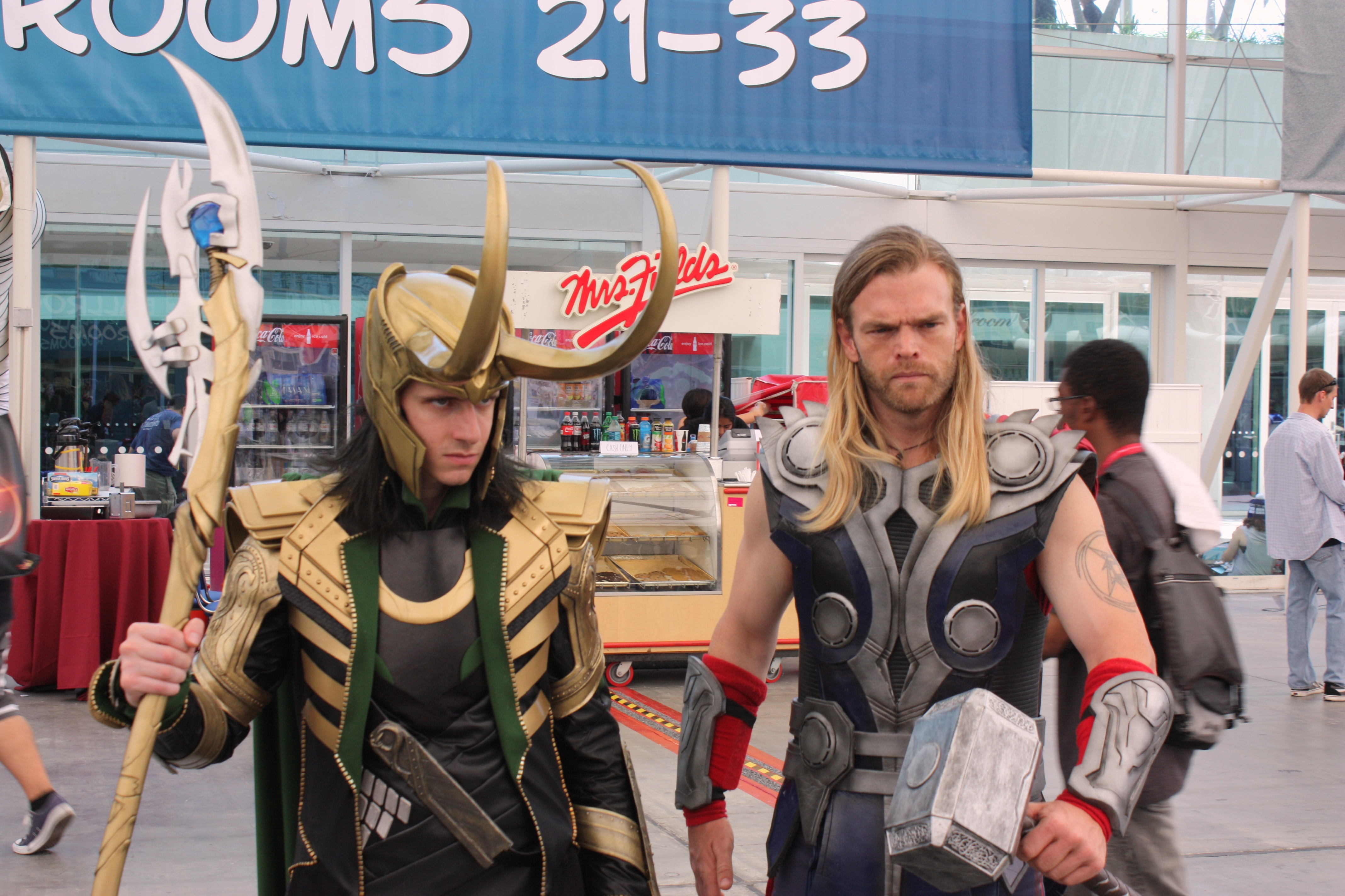 Cosplay at San Diego Comic Con 2014: Loki Hates You cosplaying as Loki and Thor TV cosplaying as Thor, both from Marvel Comics and specifically based on the versions in the films of the Marvel Cinematic Universe.